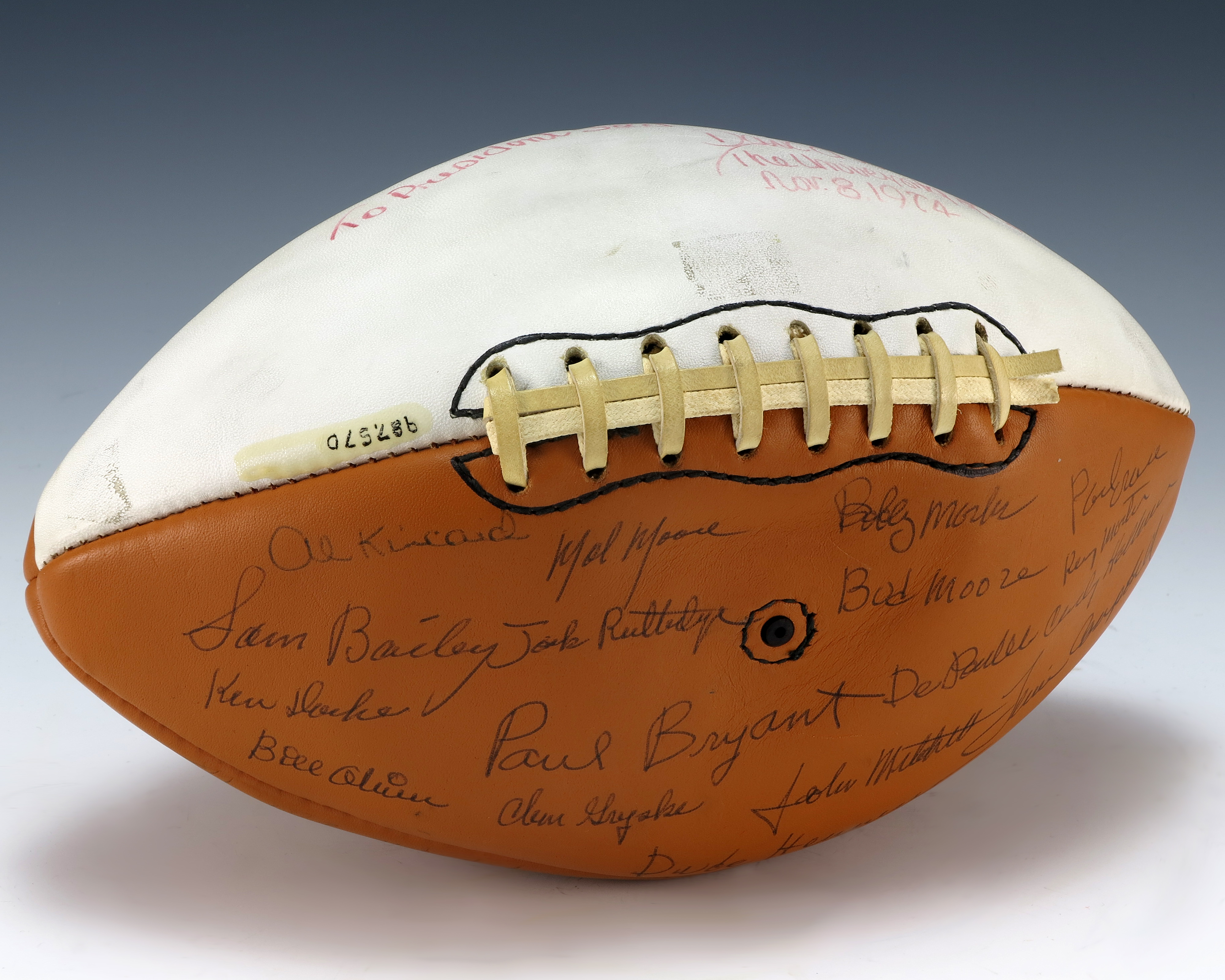 Football signed by the 1974 Alabama Crimson Tide, the University of Alabama football team. Notable signatures include Paul (Bear) Bryant and Ozzie Newsome. In addition, an inscription Gerald R. Ford can be found on the white quarter of the football.